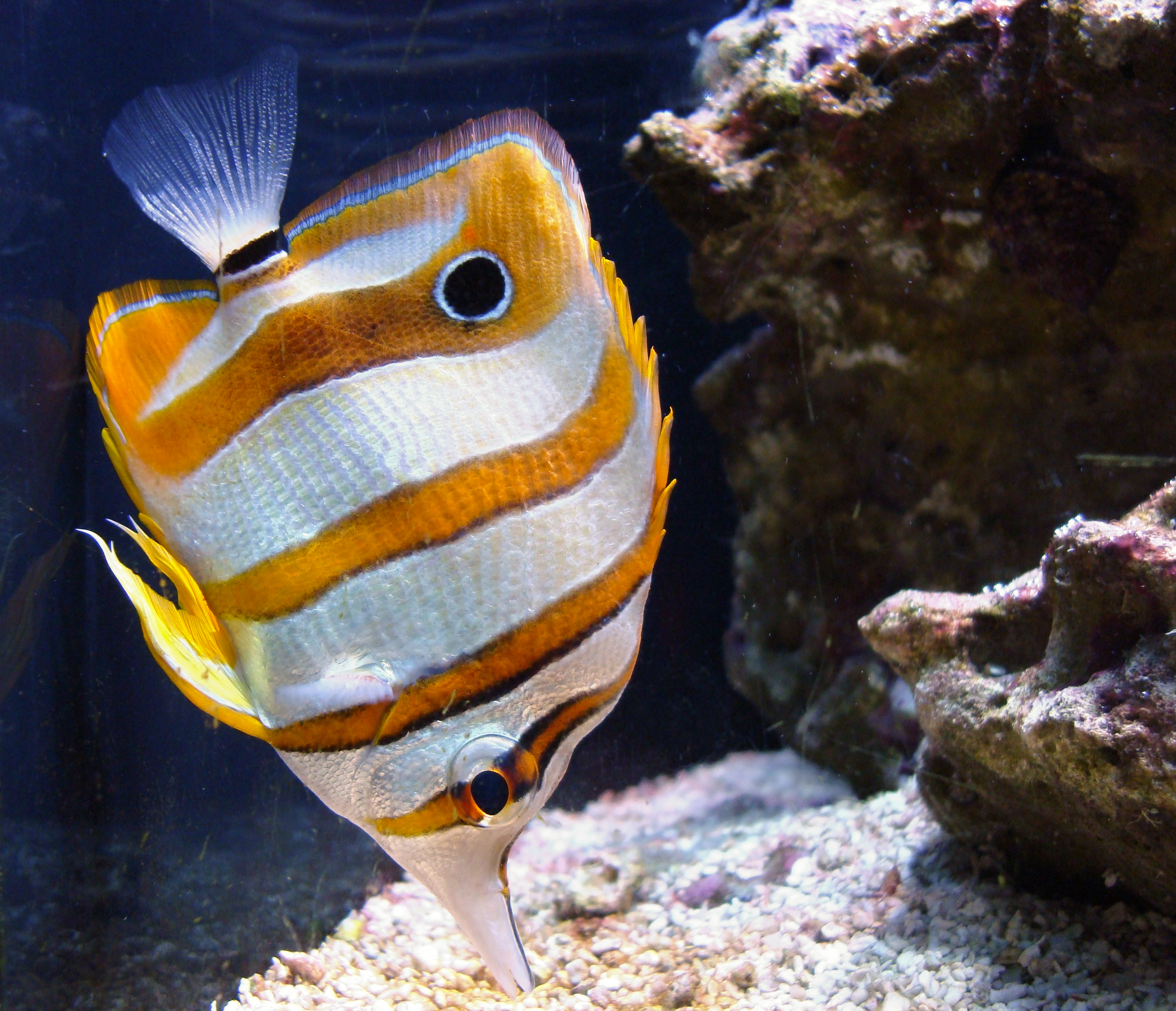 Chelmon rostratus pictured at the Seattle Aquarium in Washington state (USA).